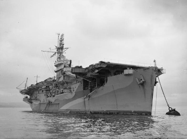 British Bogue/Ameer class escort aircraft carrier HMS PREMIER moored at Greenock.